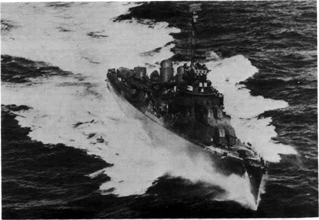 The U.S. Navy destroyer USS Stevens (DD-479) underway at sea in July 1943. A catapult for launching an observation plane is mounted aft of the stacks in place of the fifth 5-inch gun mount normally installed in this class.